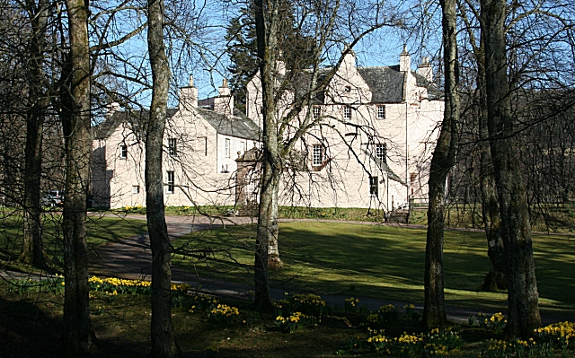 Beldorney Castle Best seen in winter when the leafless trees allow a view from the public road, Beldorney Castle is a Z-plan castle dating from the 16th century. In the 15th century Beldorney was granted to Sir James Ogilvy of Deskford, and in the 16th century it passed, possibly through marriage, to George Gordon, 1st of Beldorney. in the late 18th century it was sold to Sir William Grant, whose family retained it until 1919. There is a detailed article about Beldorney Castle at